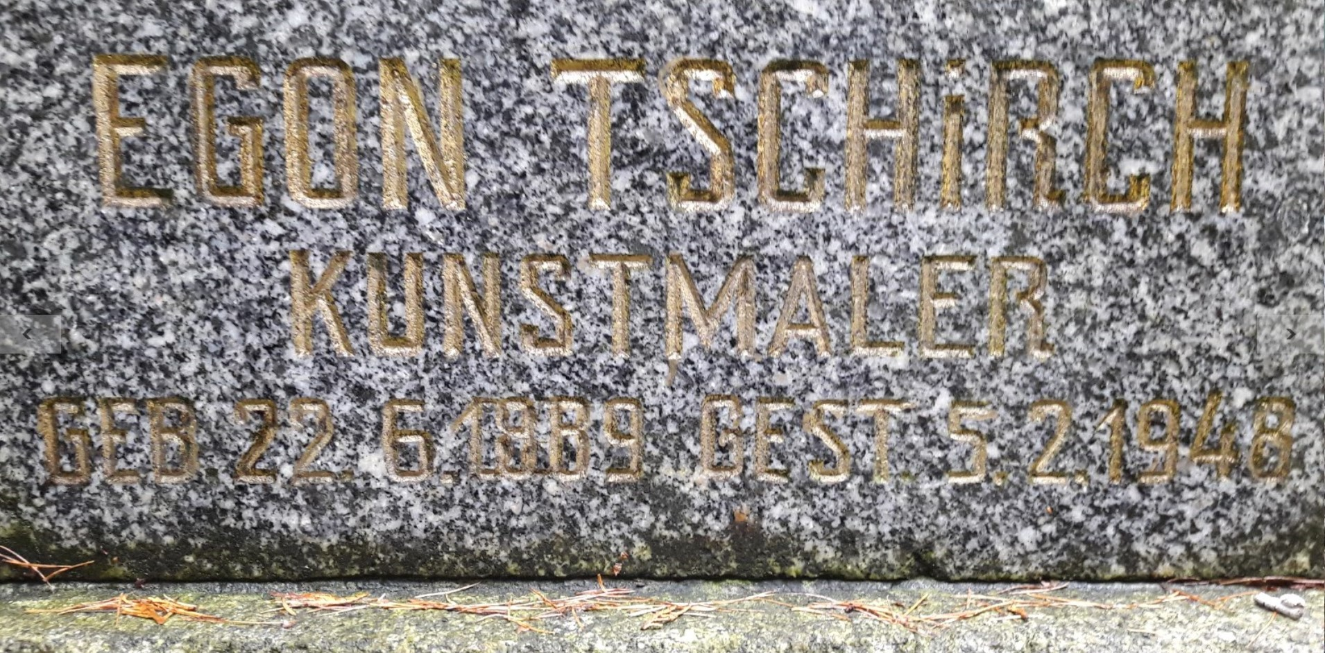 Tombstone Egon Tschirch (1889-1948) Cemetery Rostock - Neuer Friedhof Rostock